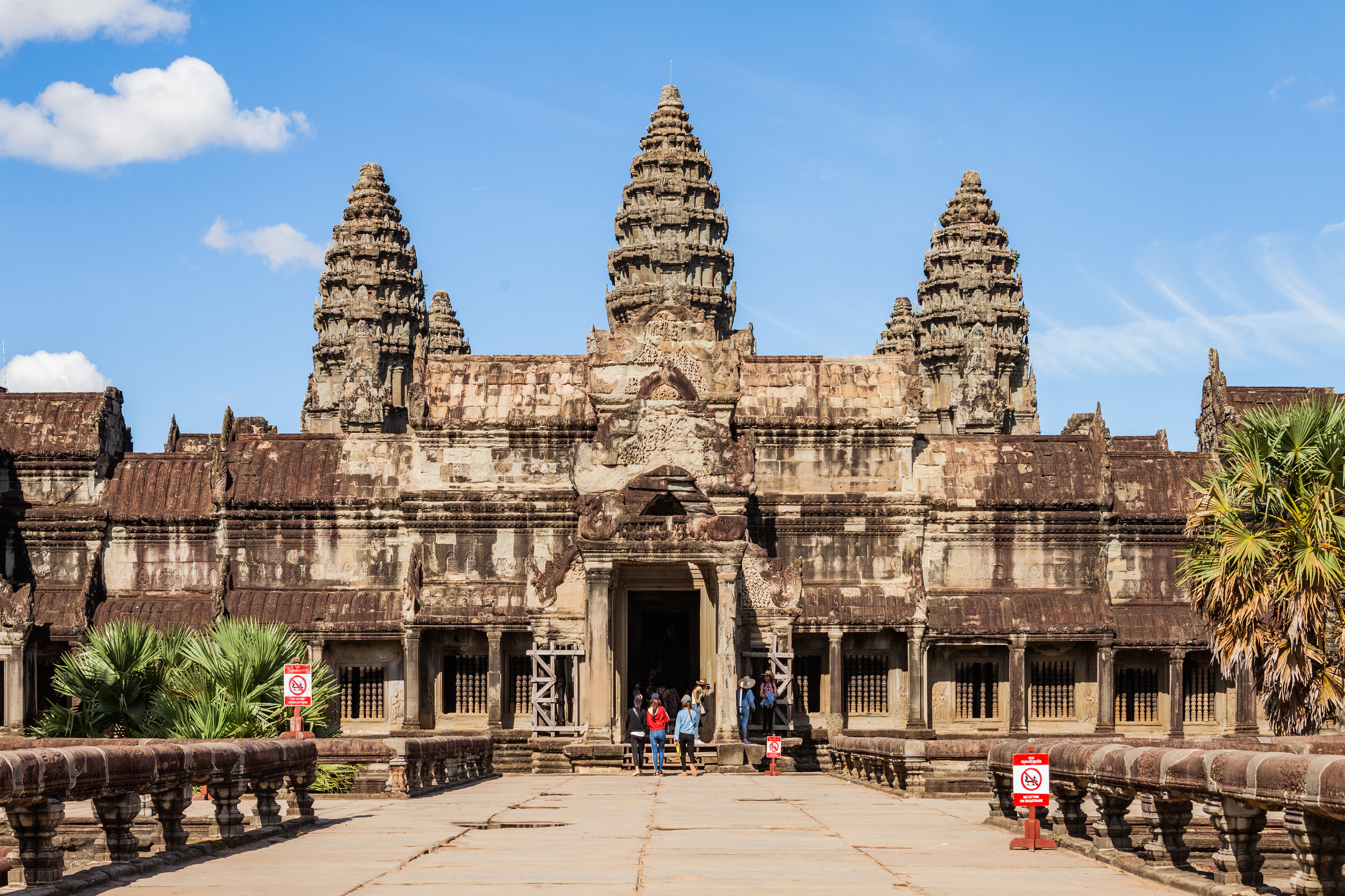 View of Angkor Wat from inner causeway, Siem Reap, Cambodia.